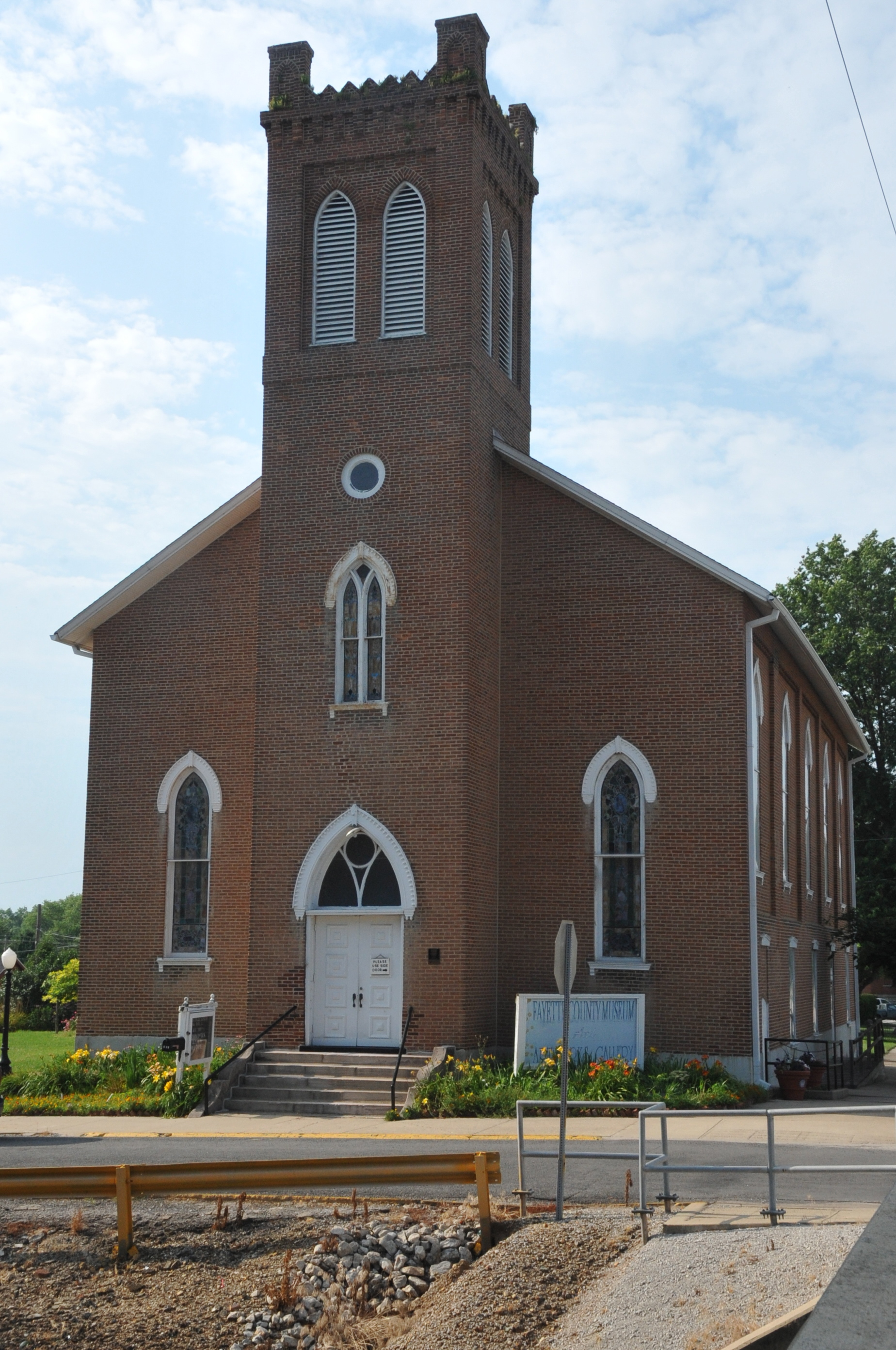 BUILT IN 1867 IT IS NOW THE FAYETTE COUNTY MUSEUM AS OF 1970; EARLY GOTHIC REVIVAL STYLING